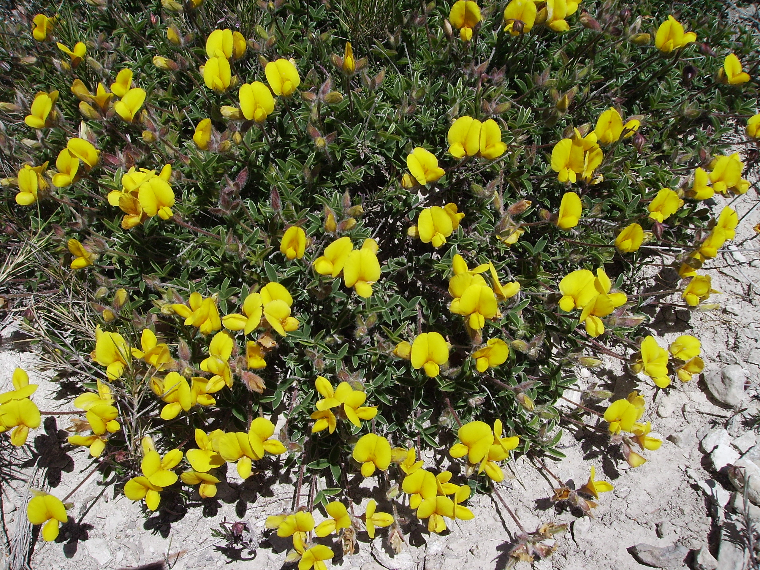 Argyrolobium zanonii in the wild, Castelltallat Catalonia